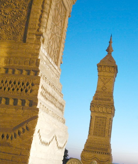 Decorative Brick Columns in Nishapur worked by Mohammad-Ghasem Akhavian.ستون های آجری در نیشابور کار محمد قاسم اخویان